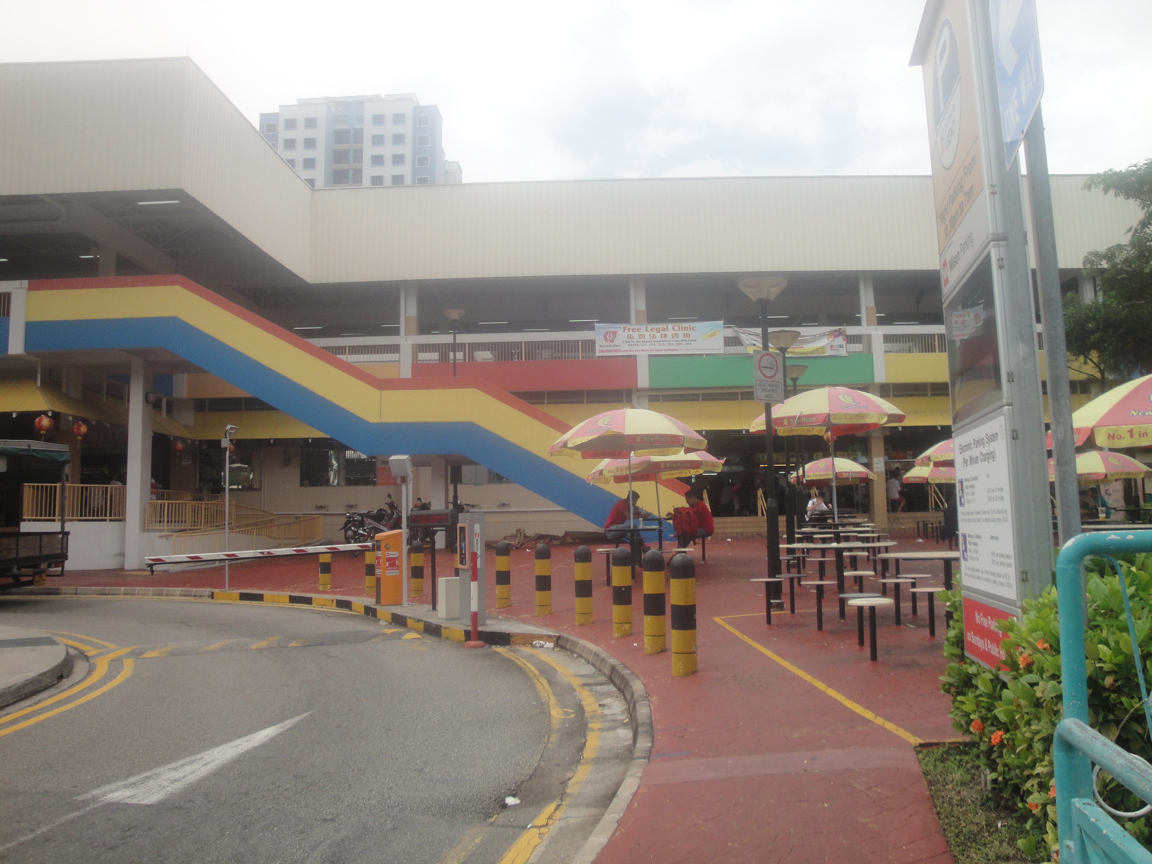 Old Aiport Road Food Centre